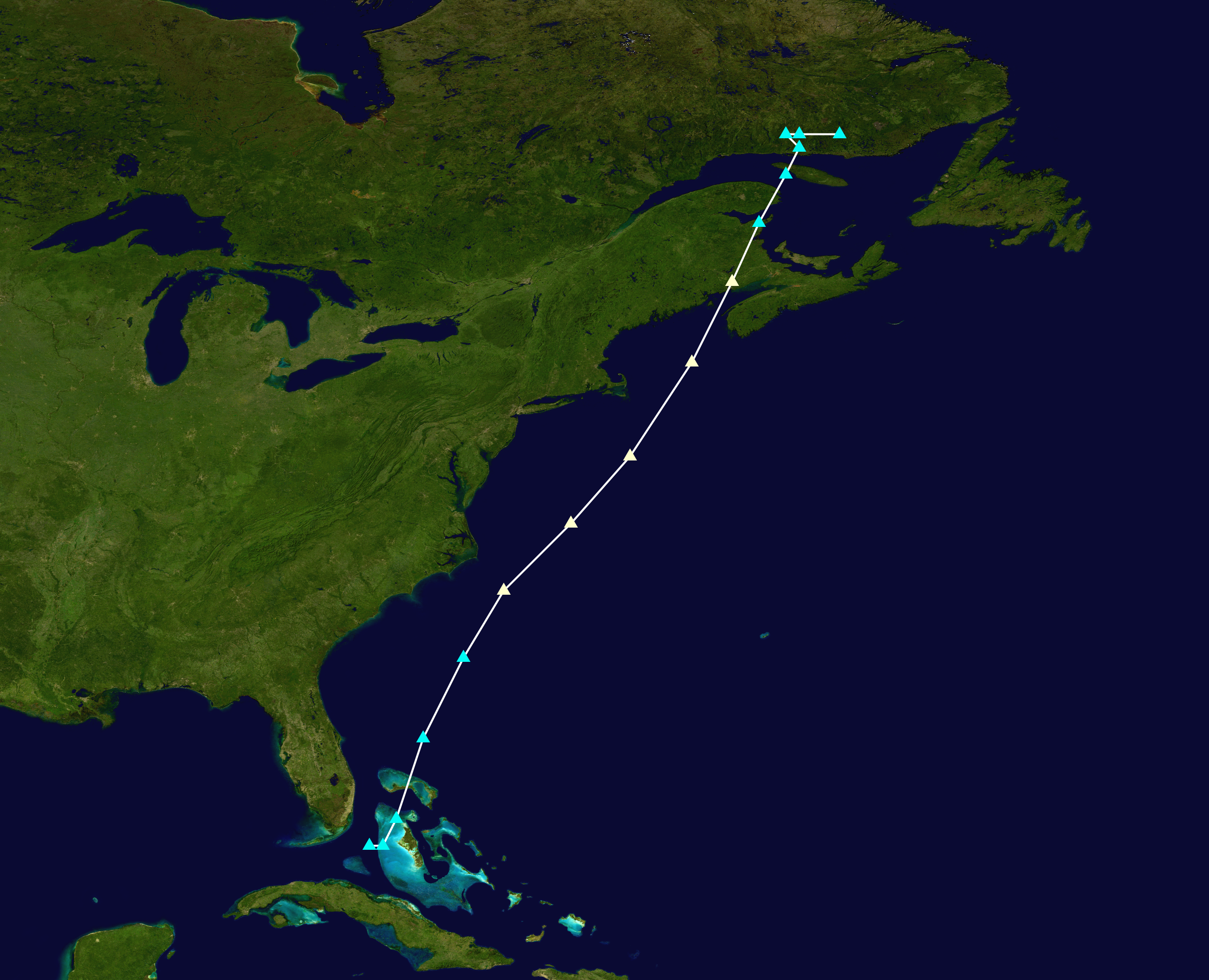 Track map of January 2018 North American blizzard of the 2017–18 North American winter. The points show the location of the storm at 6-hour intervals. The colour represents the storm's maximum sustained wind speeds as classified in the Saffir–Simpson scale (see below), and the shape of the data points represent the nature of the storm, according to the legend below. Saffir–Simpson scale Tropical depression≤38 mph≤62 km/h Category 3111–129 mph178–208 km/h Tropical storm39–73 mph63–118 km/h Category 4130–156 mph209–251 km/h Category 174–95 mph119–153 km/h Category 5≥157 mph≥252 km/h Category 296–110 mph154–177 km/h Unknown Storm typeTropical cycloneSubtropical cycloneExtratropical cyclone / Remnant low / Tropical disturbance